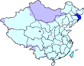 Created by Pryaltonian for maps of Mainland provinces of the Republic of China. Adapted from